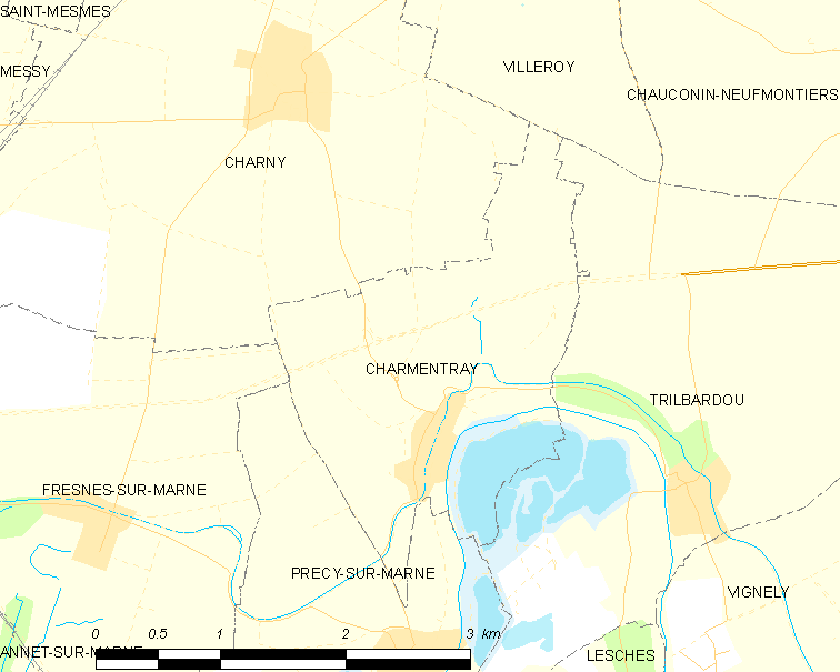 Map of French municipality Charmentray